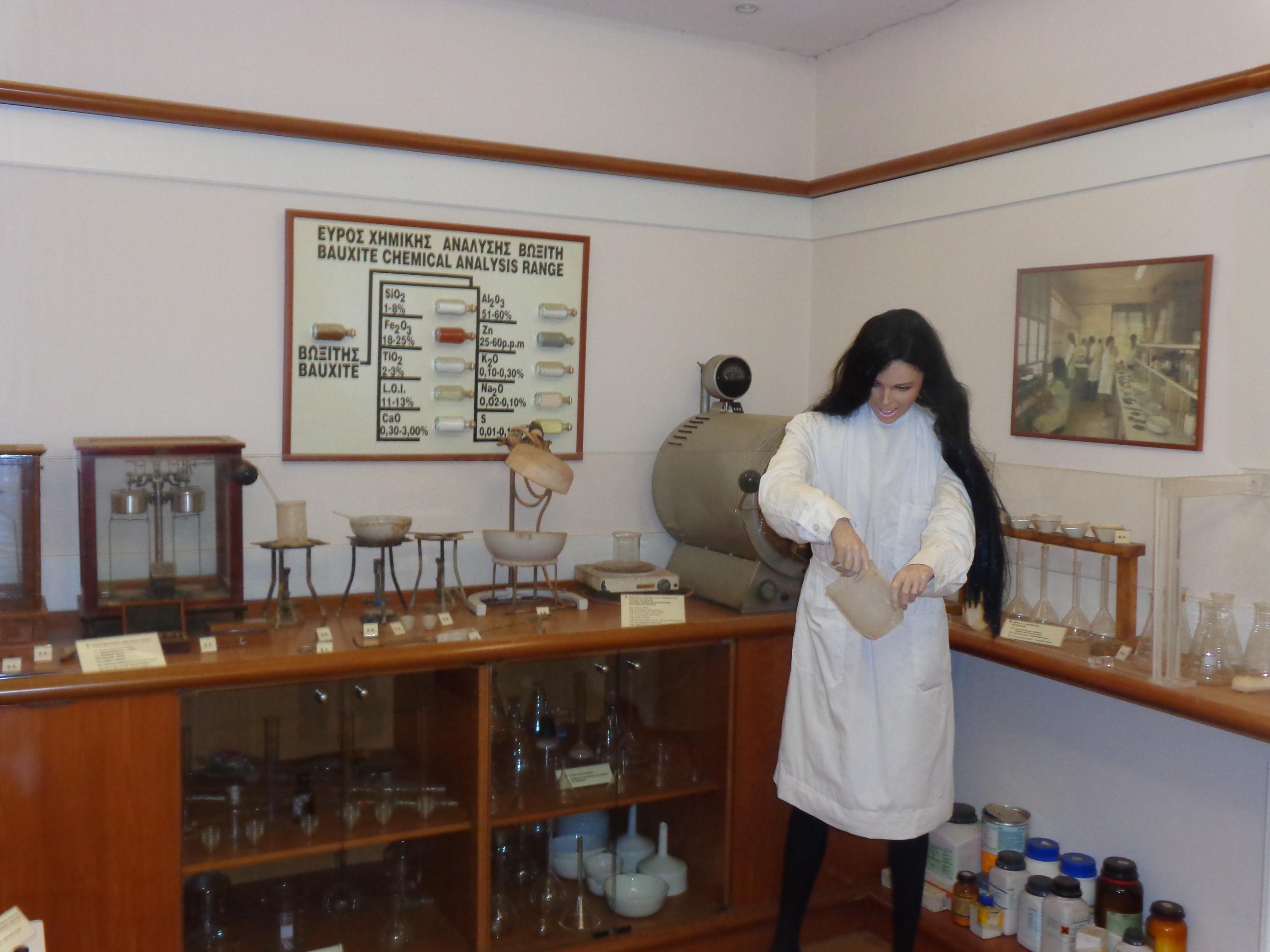 Vagonetto – Μεταλλευτικό Πάρκο Φωκίδας, Xώρος εκθεμάτων